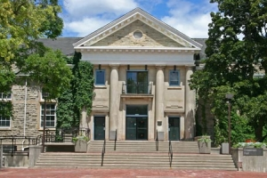 Creelman Hall, Located on the Univesity of Guelph Campus